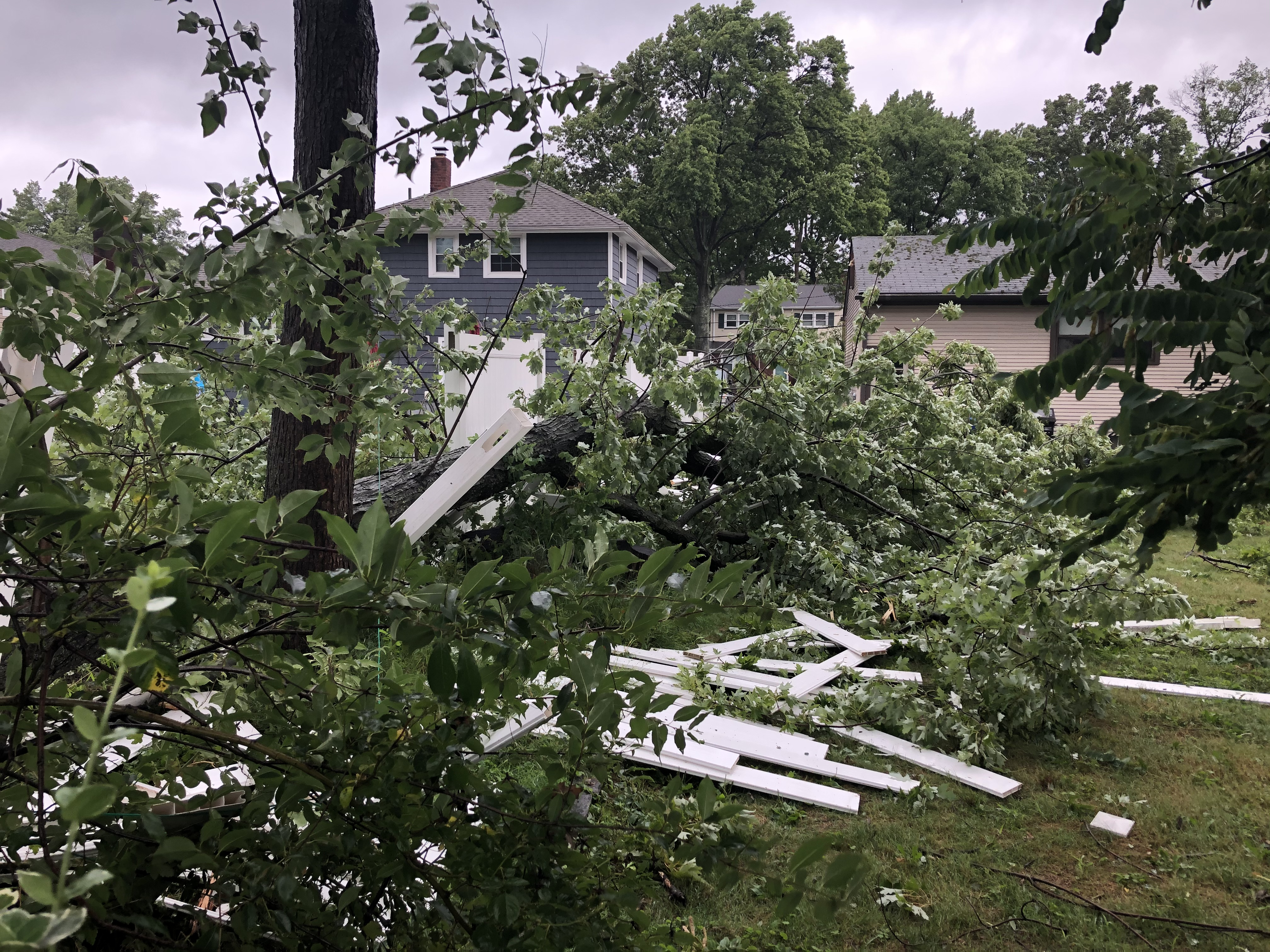 A photo of a wrecked backyard after a tree fell because of Hurricane Iasias.